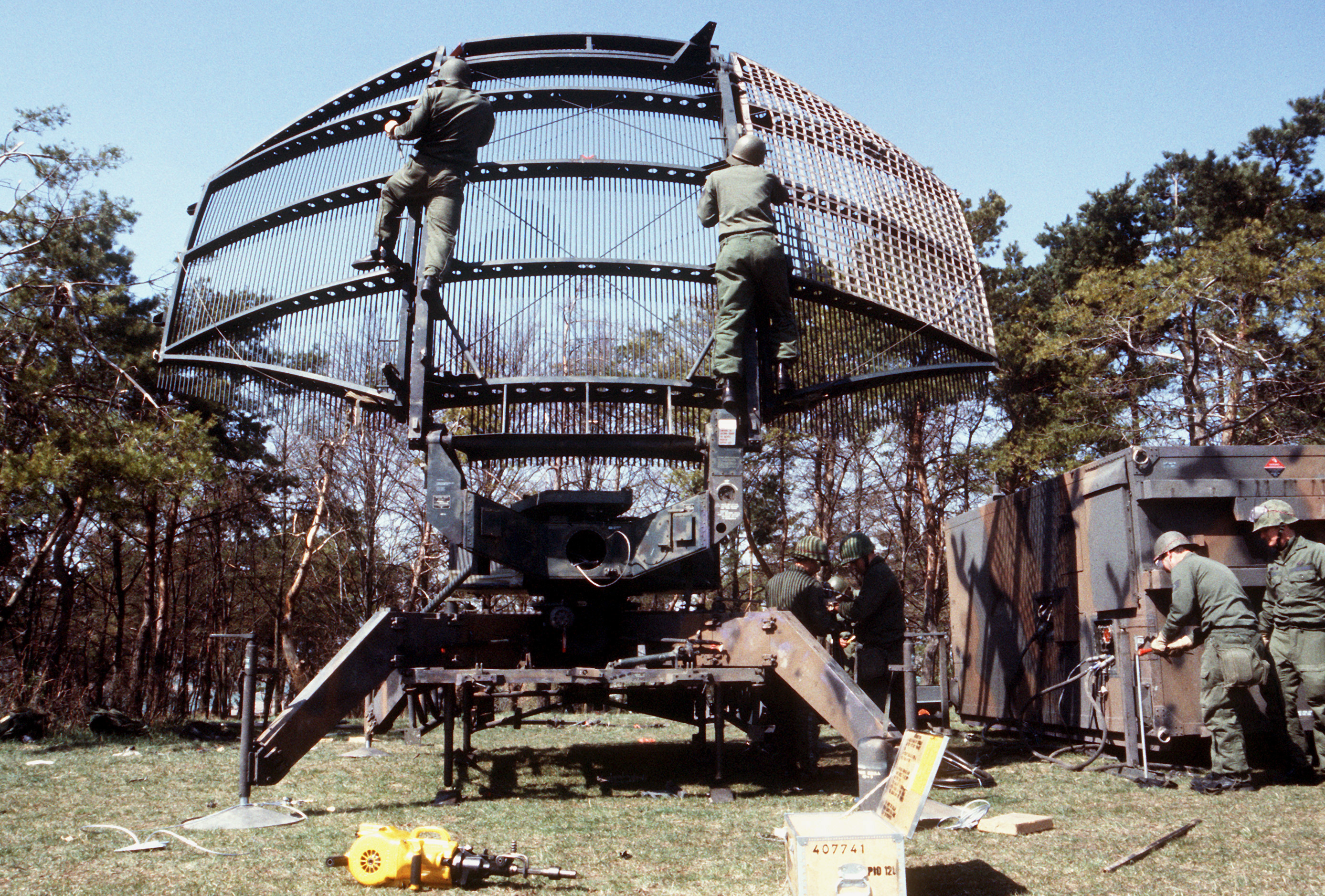 AN/TPS-43E radar equipment is set up by personnel of the 622nd Tactical Control Flight, during Exercise UREX '82 near Grünstadt, West Germany.